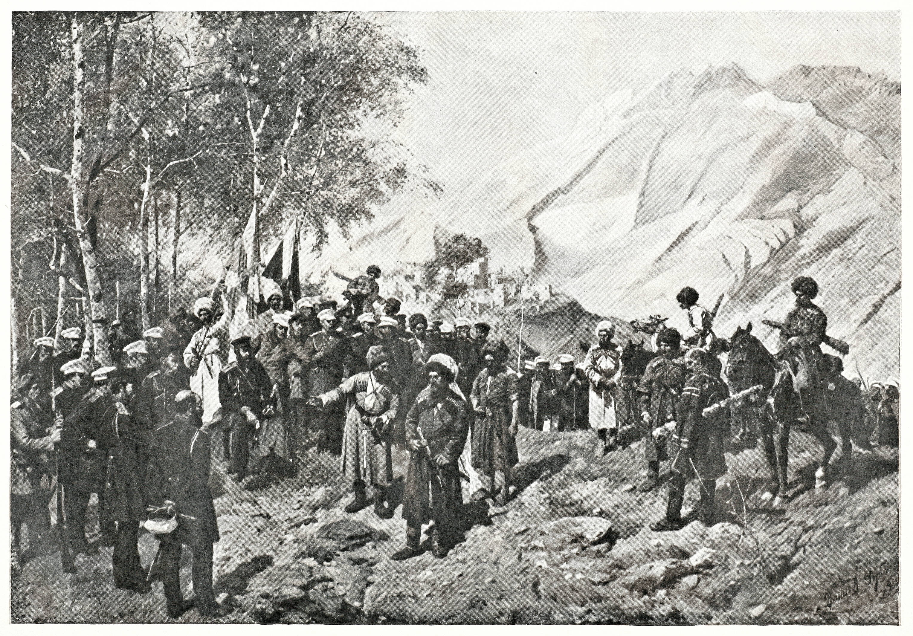 Franz Roubaud (1856-1928). Surrender of Shamil